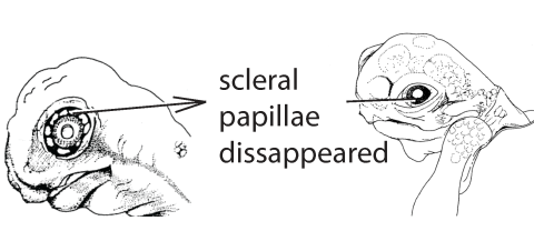 Standard Event System character depiction